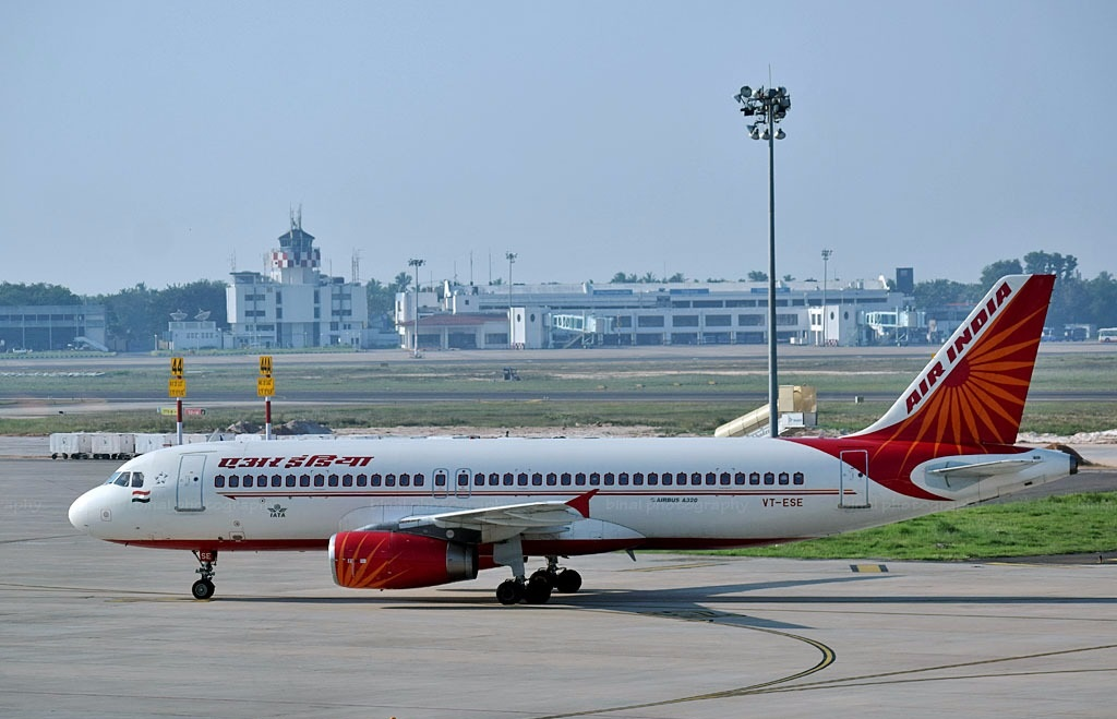 An Air India A320 at Trivandrum international airport.